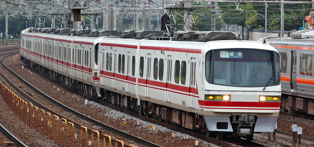 Meitetsu 1800 series EMU set 1801 together with 1000/1200 series 6-car set 1014 on a limited express service between Jingu-mae and Kanayama stations